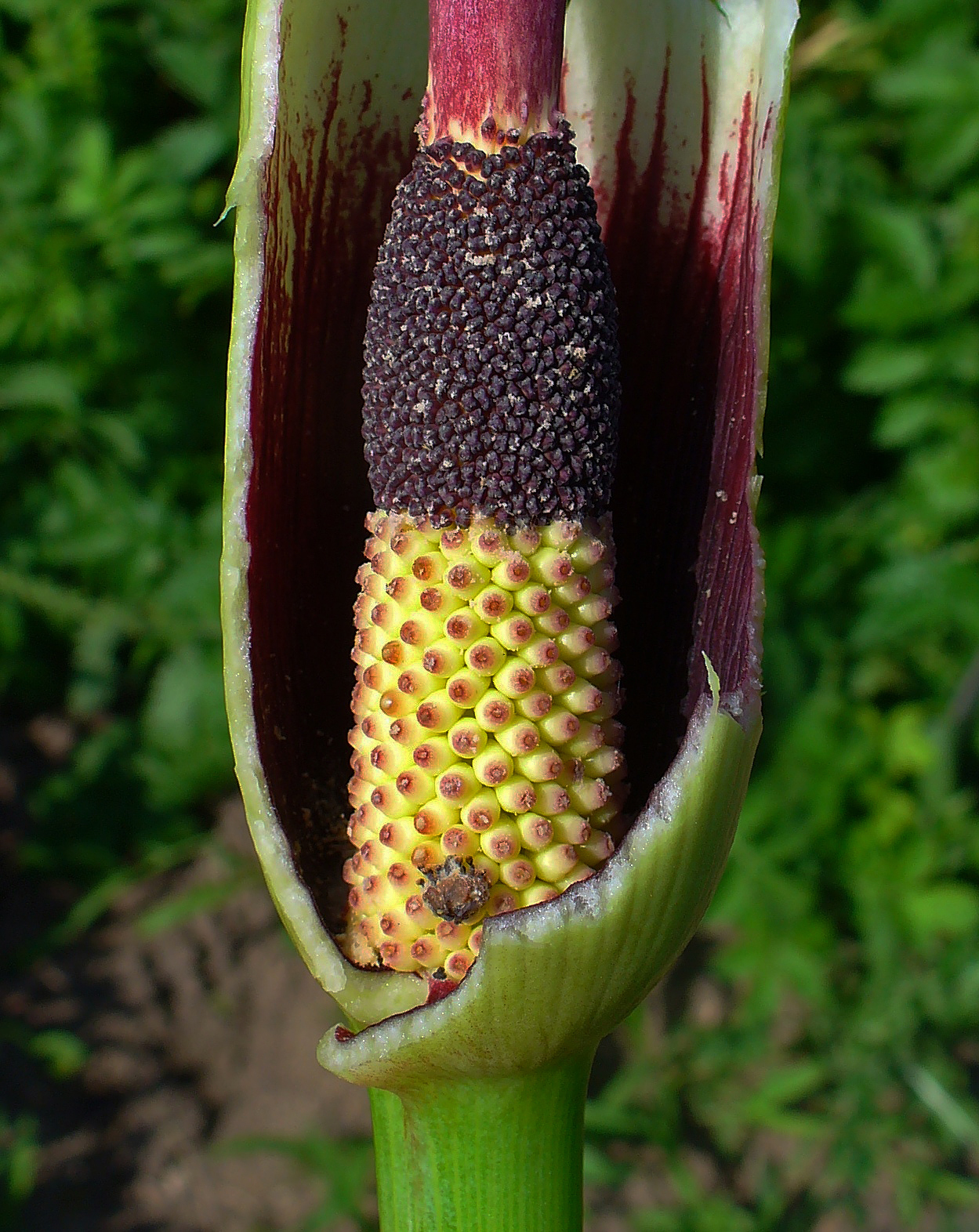 Dracunculus vulgaris,Dragon Arum, Black Arum, Voodoo Lily, Snake Lily, Stink Lily, Black Dragon, Dragonwort, Ragons, male (at top) and female (at the bottom) flowers; Stutensee-Staffort, Germany.